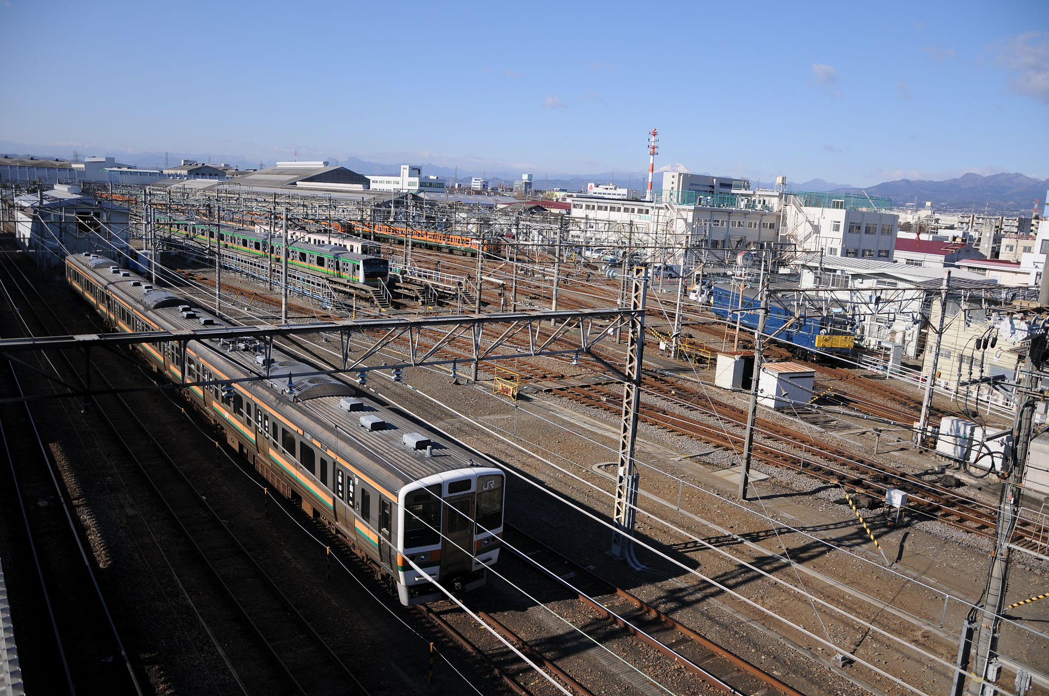 JR East Takasaki Rolling Stock Center